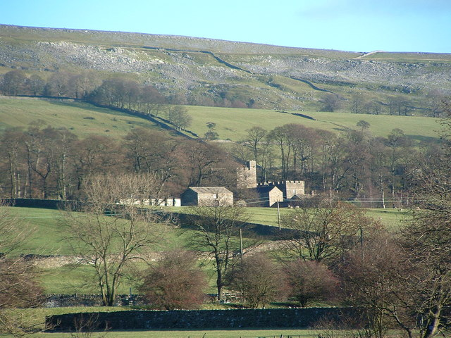 Nappa Hall,Askrigg, Wensleydale Nappa Hall was built 1450-1459 and is one of the few castellated houses left in Yorkshire. Being fortified, it had some protection from raiders from further north and Scotland. The Nappa Estate was given to James Metcalfe by Sir Richard Scrope of Bolton Castle, under whom he had fought at the Battle of Agincourt in 1415.